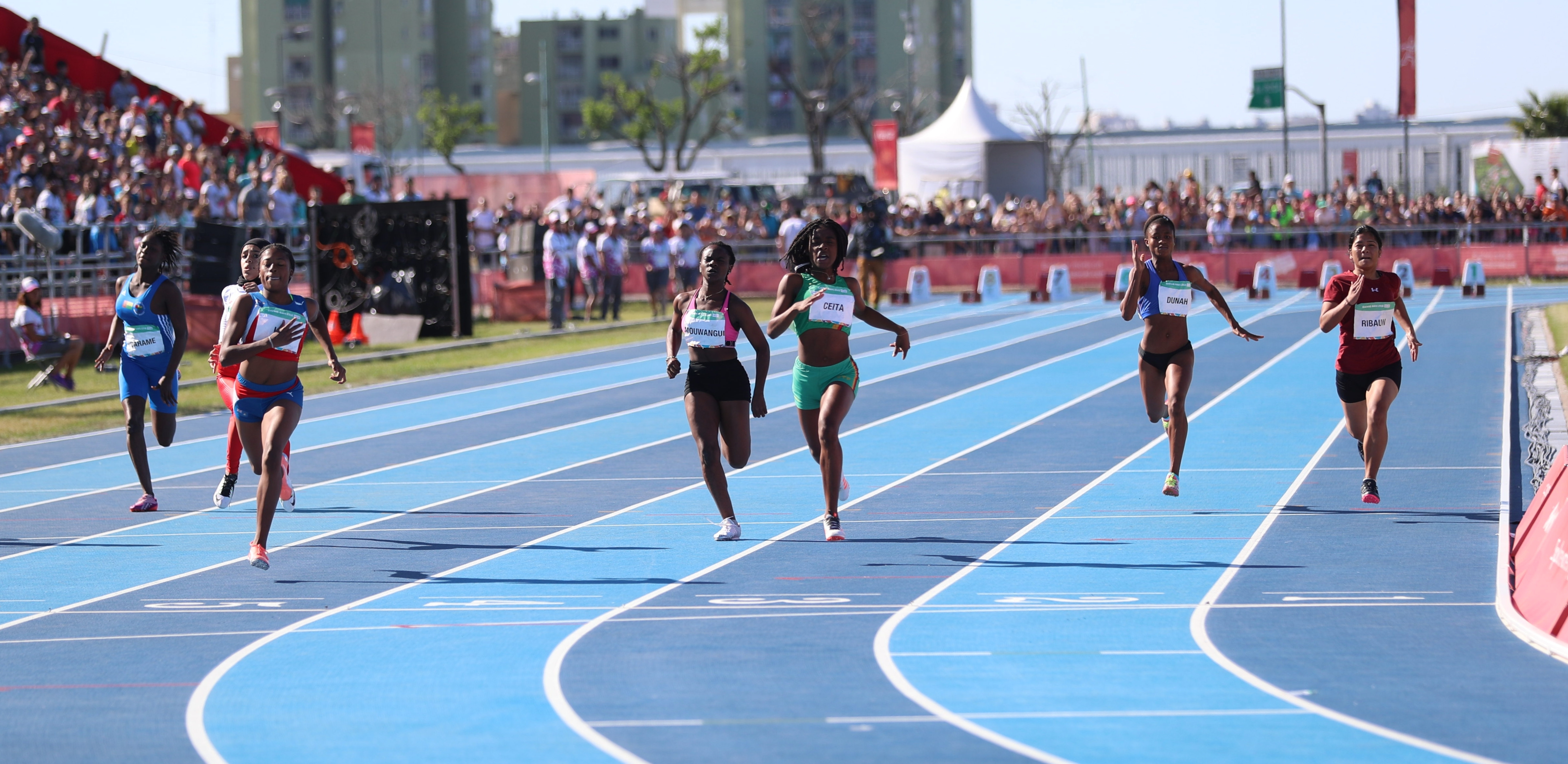 Athletics, Girls' 100m Stage 2, at the 2018 Summer Youth Olympics in Buenos Aires on 15 October 2018.